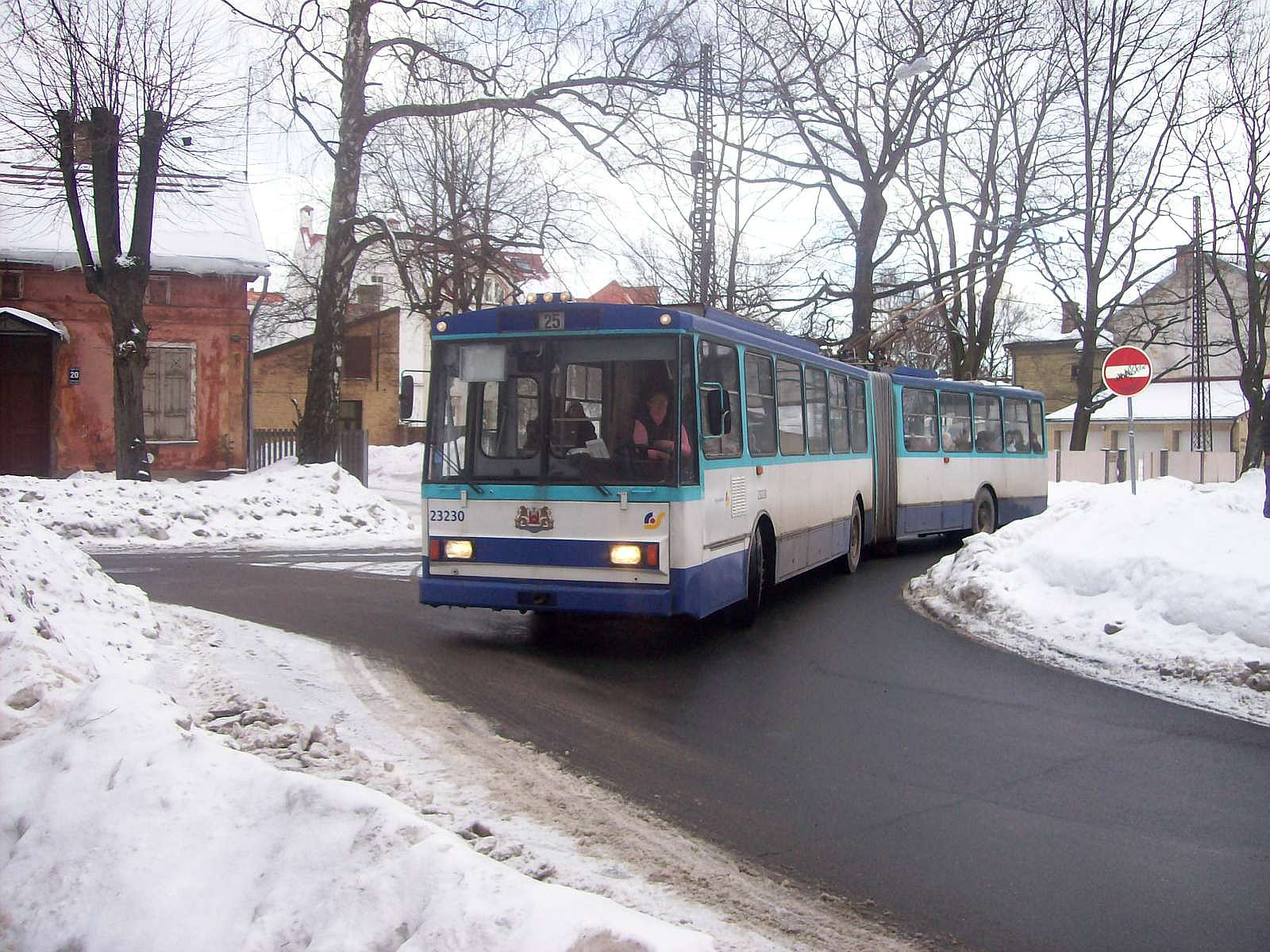 Trolleybus Škoda 15Tr03/6 in Riga